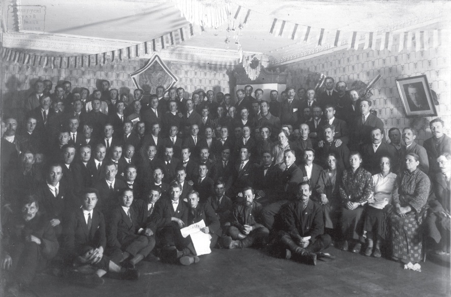 Participants of Belarusian christians party convention in Vilnius, 1927